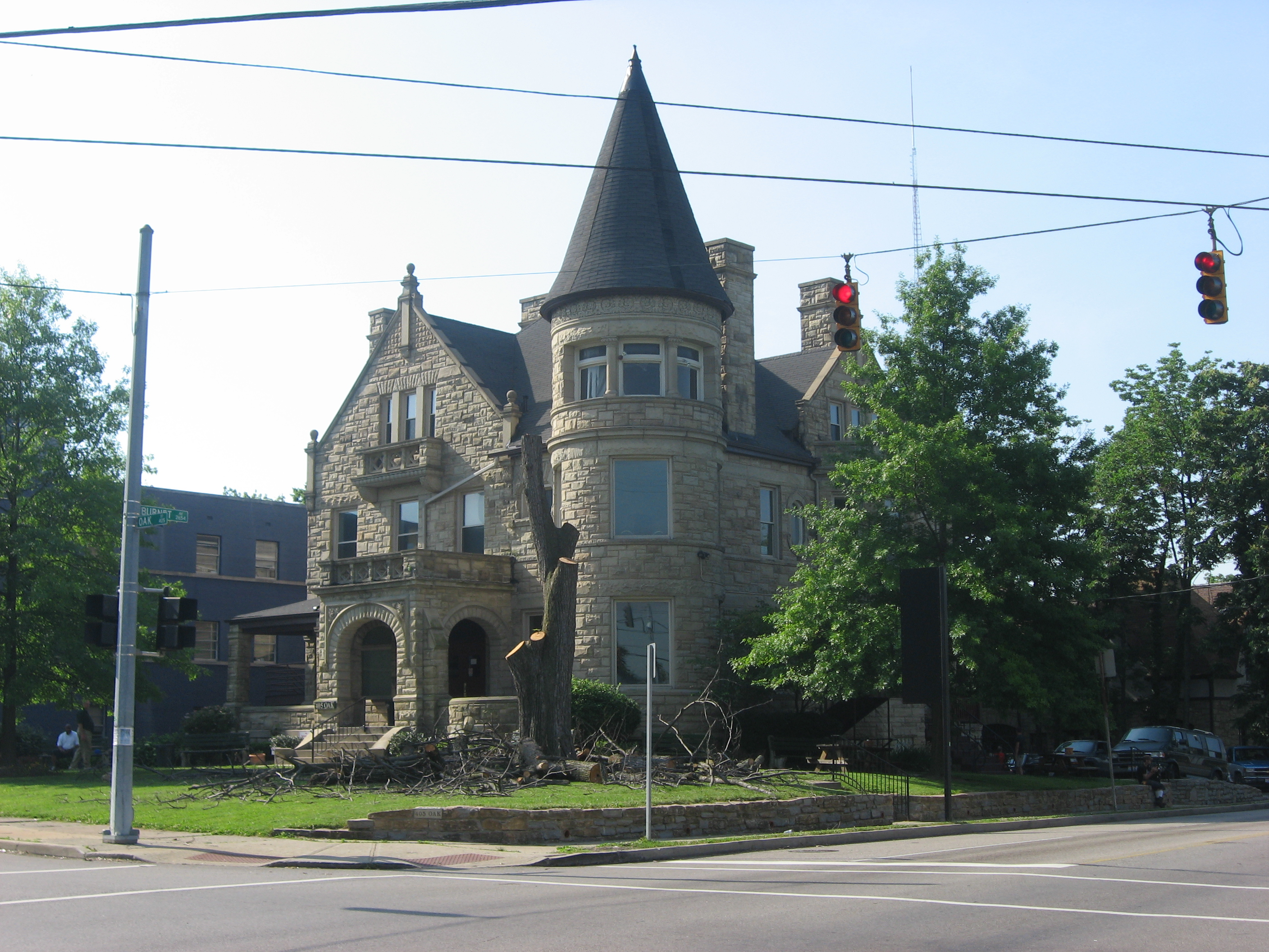 The Captain Stone House, located at 405 Oak Street in Cincinnati, Ohio, United States. Designed by Samuel Hannaford and built in 1890, the house is listed on the National Register of Historic Places.